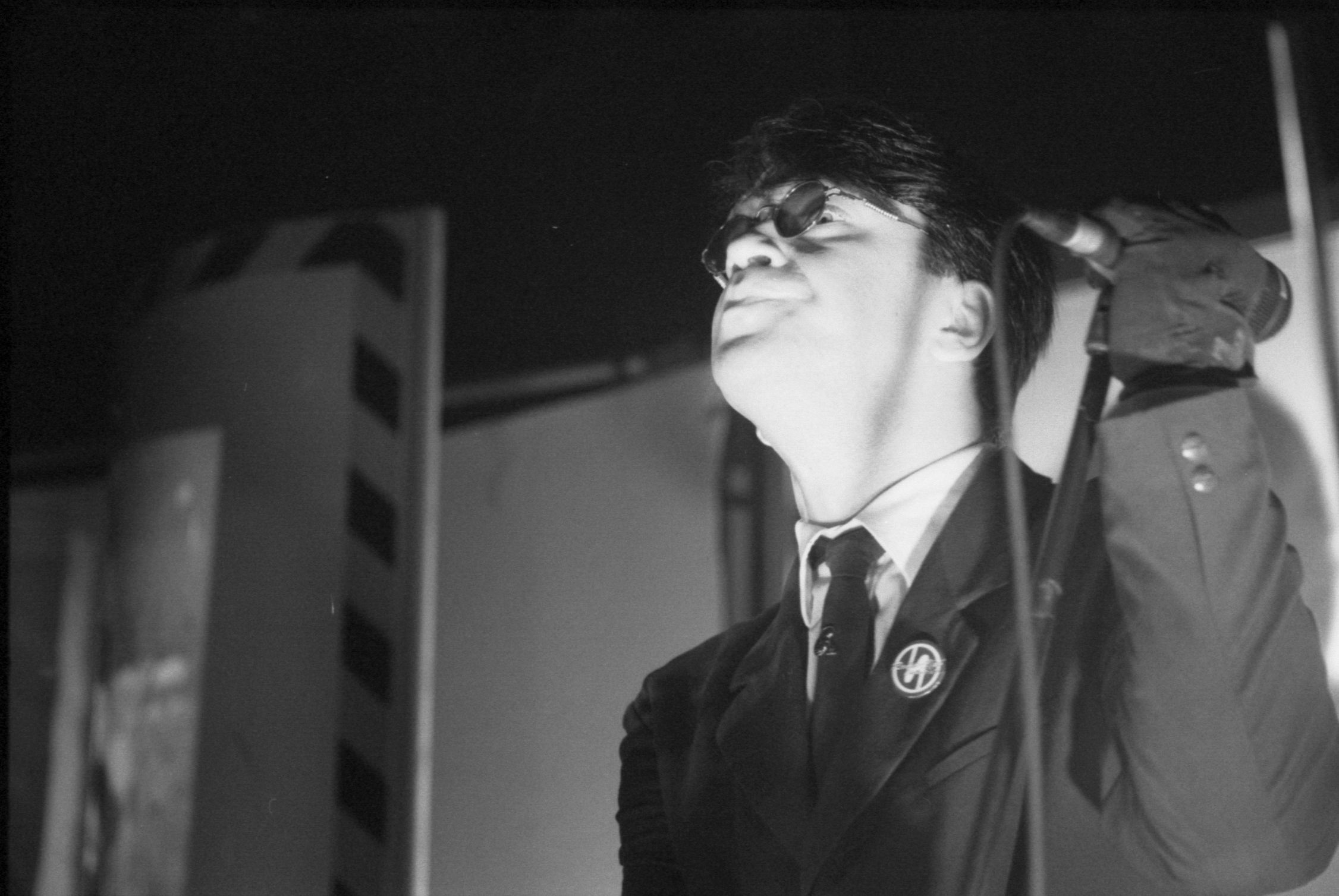 Welle:Erdball in concert in Zurich, 19 December 2008. Photographed with a Leica M3.